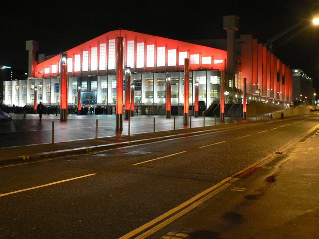 Wembley Arena, London, England floodlit in red. The colours of the floodlights were changing every few seconds and the pillars of light on the concourse were changing to match.